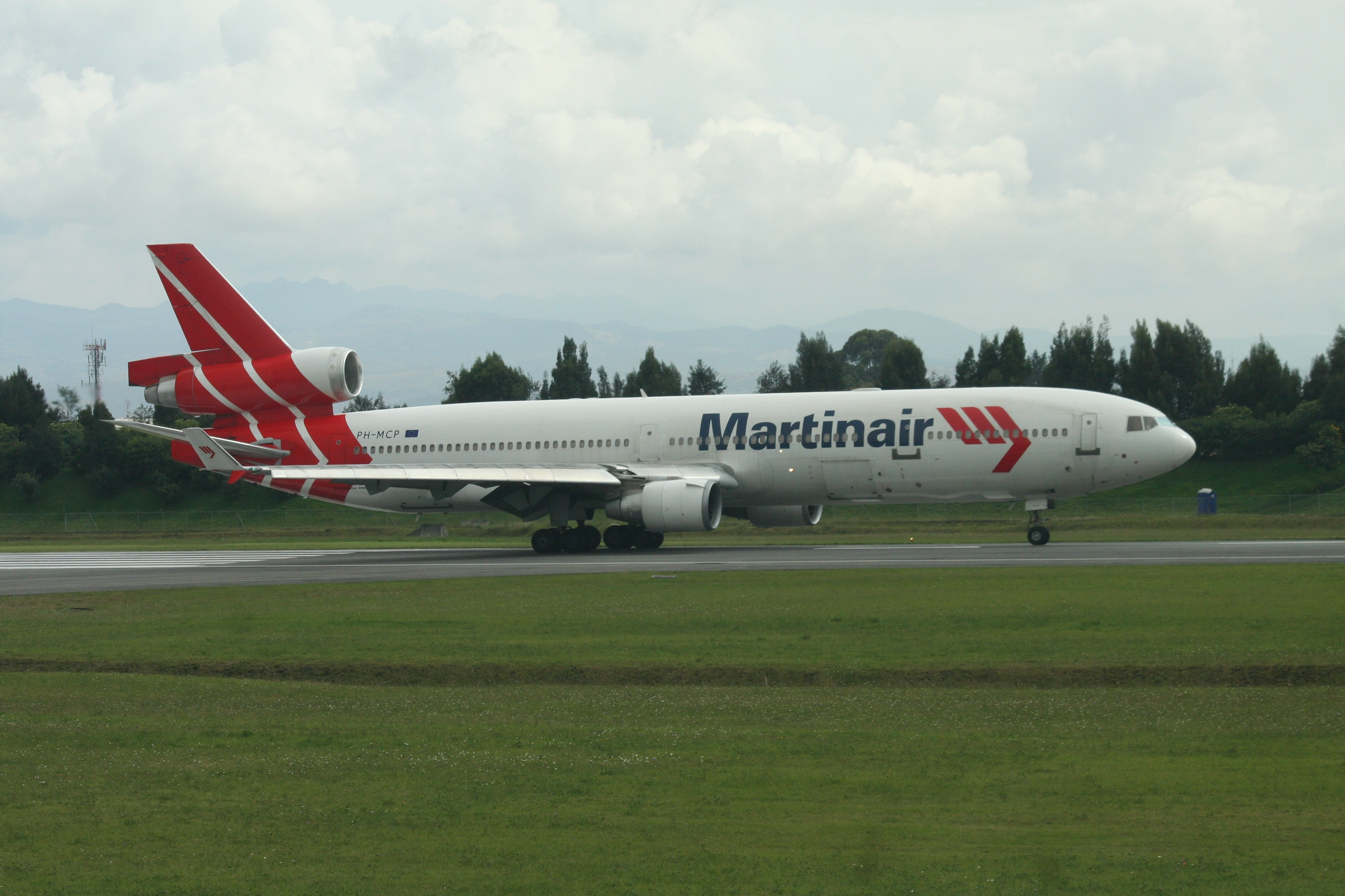 MD-11 Taking Off from El Dorado International Airport SKBO